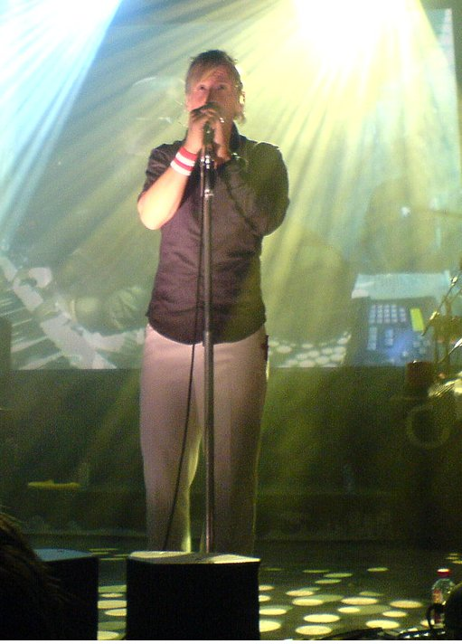 Martin Smith, lead singer of band Delirious?